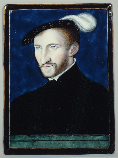 Léonard Limosin: Henri d'Albret (1503–1555), King of Navarre (mid-16th century), Metropolitain Museum of Art